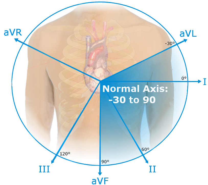 Normal EKG axis